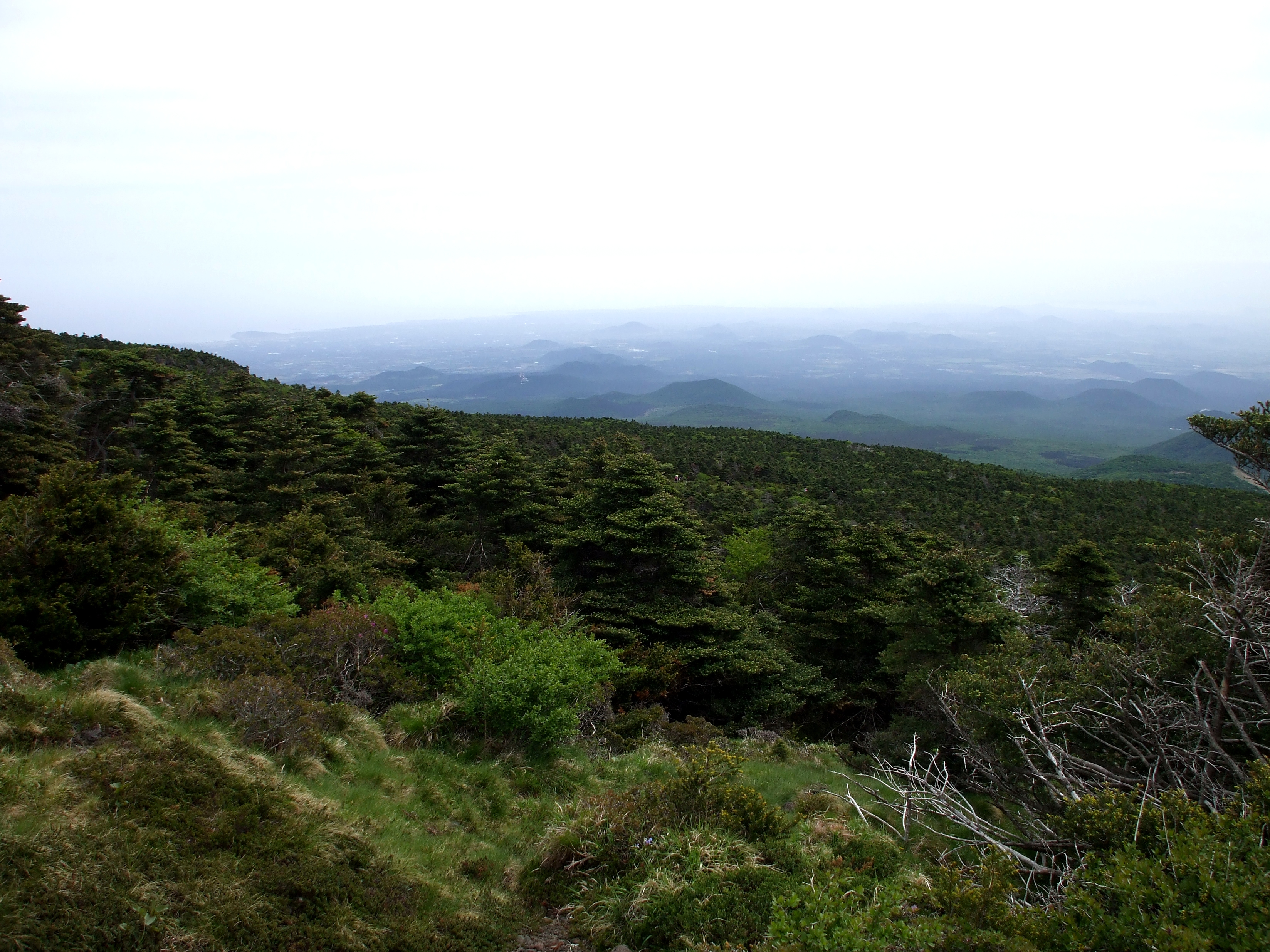 Abies koreana, from the middle of Mount Halla, Jeju Island, South Korea.